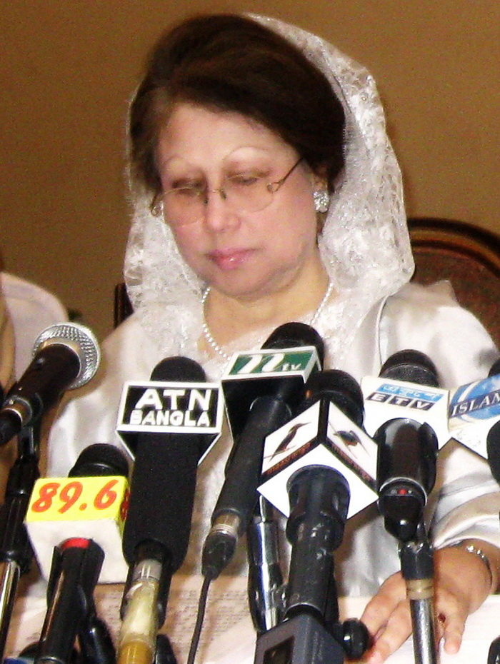 Begum Khaleda Zia, former Bangladeshi Prime Minister and now the leader of opposition, spoke in a press conference to set suggestions for the annual budget of 2011-12 fiscal year.